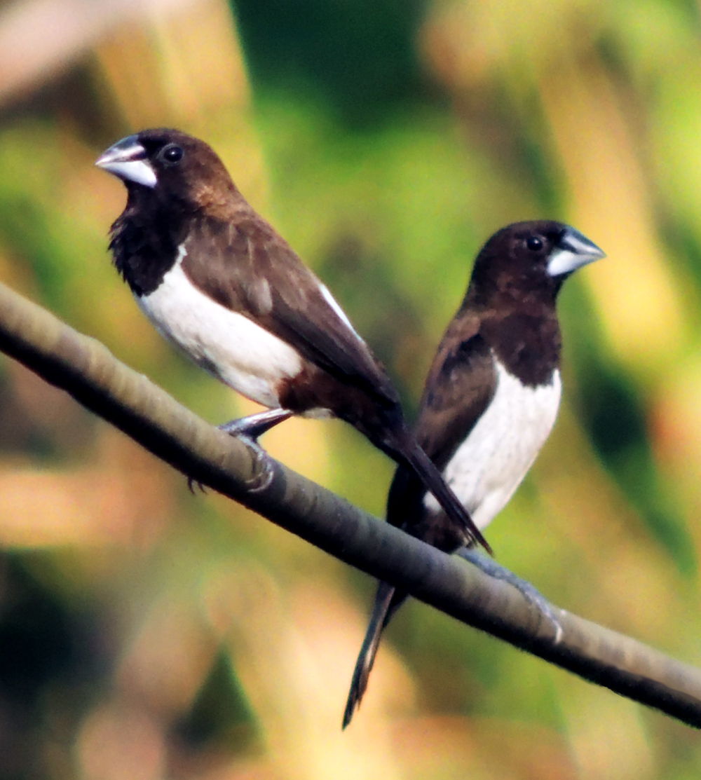 A Pair Of White-rumped Munia In Mangaon, MH, India.